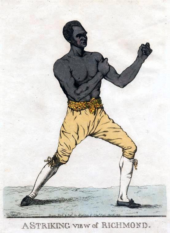 A striking view of Richmond. Hand colored etching